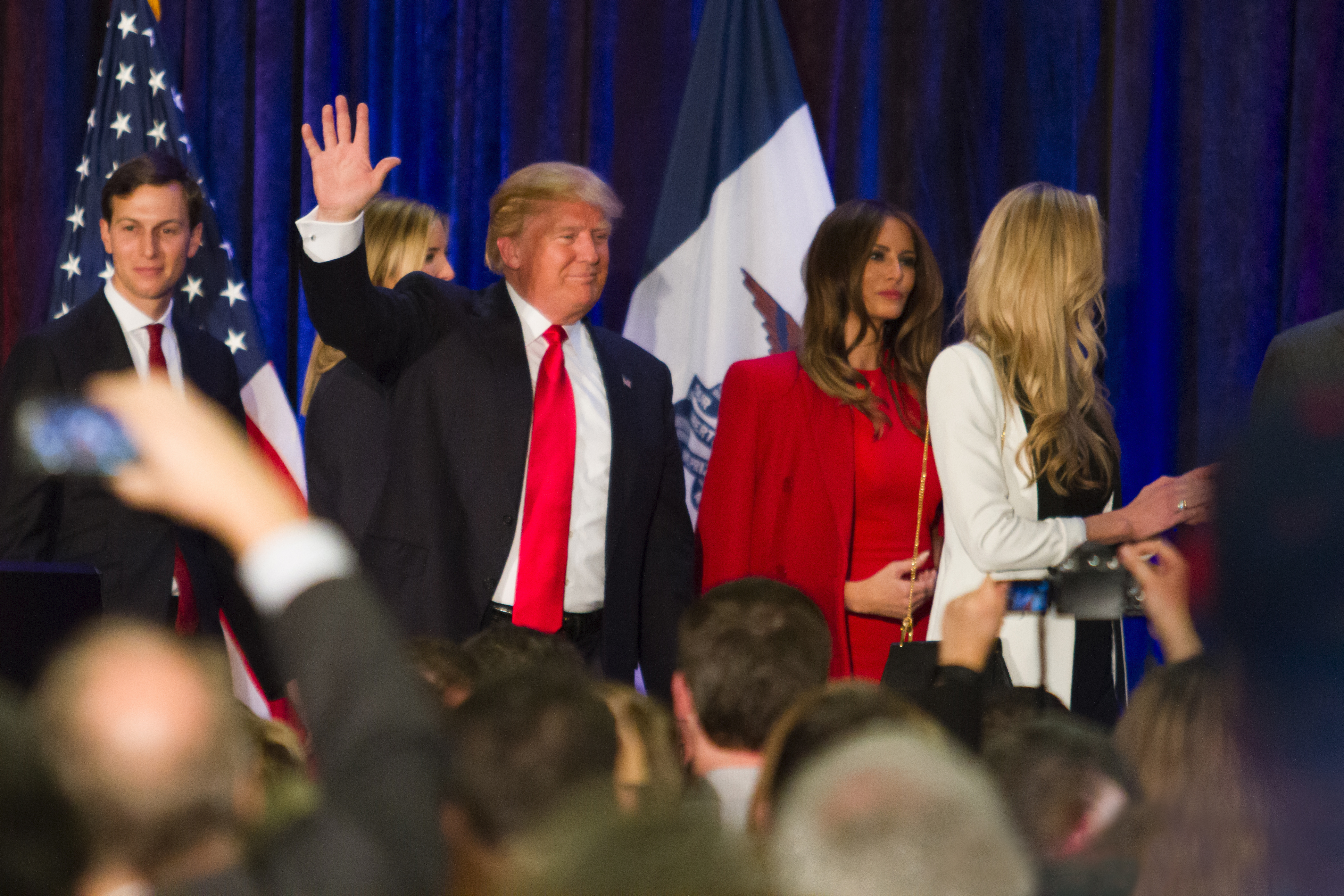 After securing his place in the top three in the Republican caucuses, presidential candidate Donald Trump spoke briefly to a crowd a watch party, Feb 2 in West Des Moines. Trump said, "I love you people, I love you people, thank you very much."